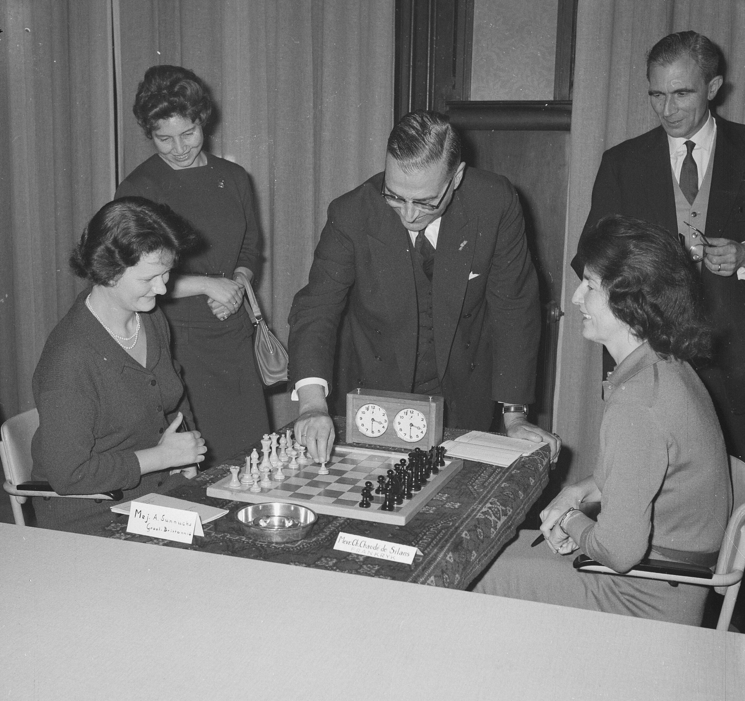 7th Danlon international women's chess tournament, Amsterdam (The Netherlands), 17 October 1962. From left to right: (Patricia) Anne Sunnucks (Mothersill), Corry Vreeken-Bouwman, mayor Van Hall, Chantal Chaudé de Silans, unidentified man.